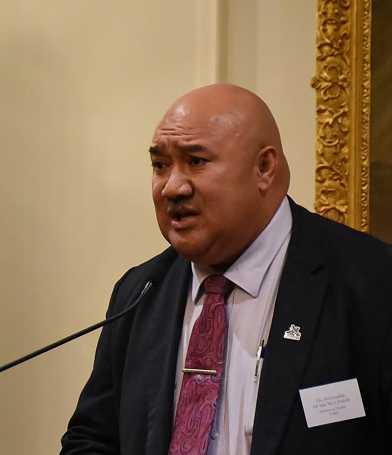 Dr Saia Ma’u Piukala, Minister of Health of Tonga, at Government House, Wellington, NZ, 15 May 2018